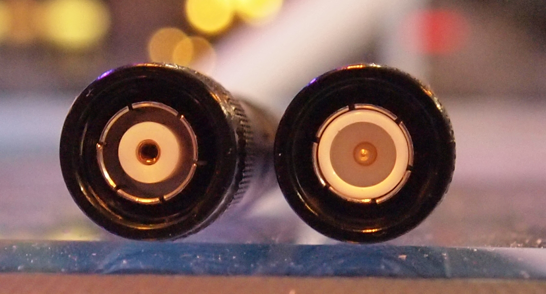 Left, an RP-TNC connector from a 2.4GHz antenna. Right, a standard TNC connector on a UHF antenna. Both antennas are from Telex wireless communications equipment.